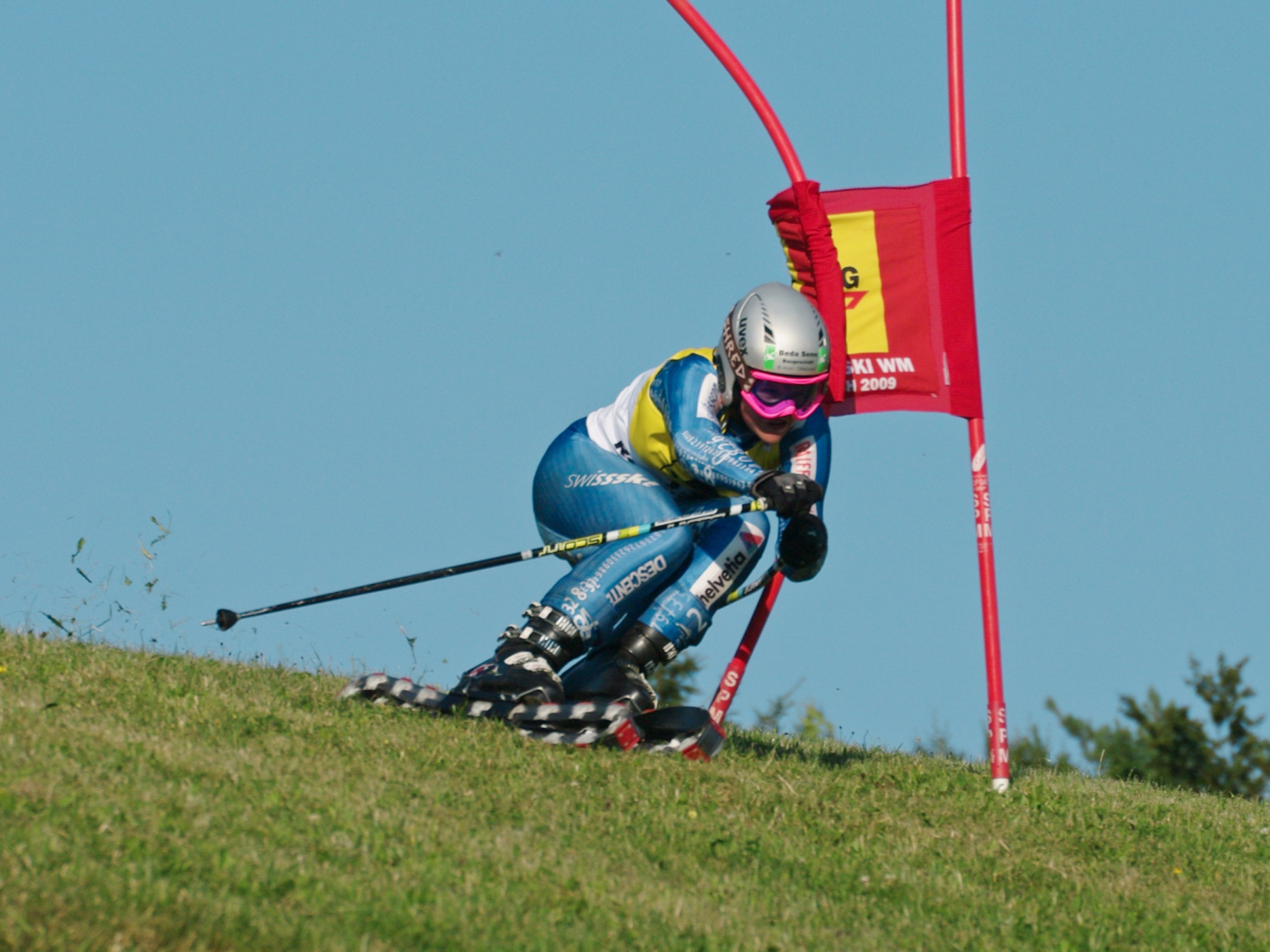 Swiss Grass skier Bianca Lenz in the FIS Super-G in Rettenbach on 9 July 2011.